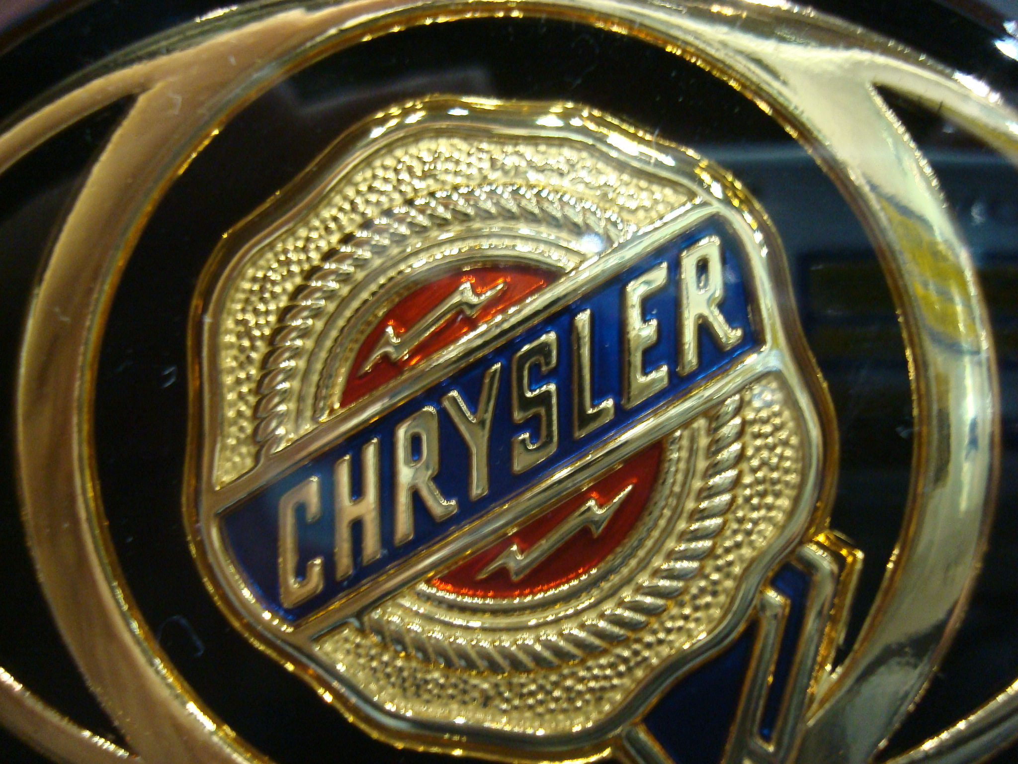 Motorshow 2008